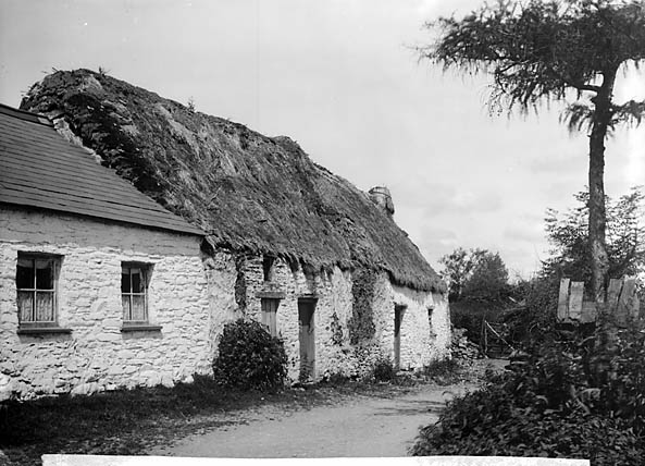 1 negative : glass, dry plate, b&w ; 12 x 16.5 cm.